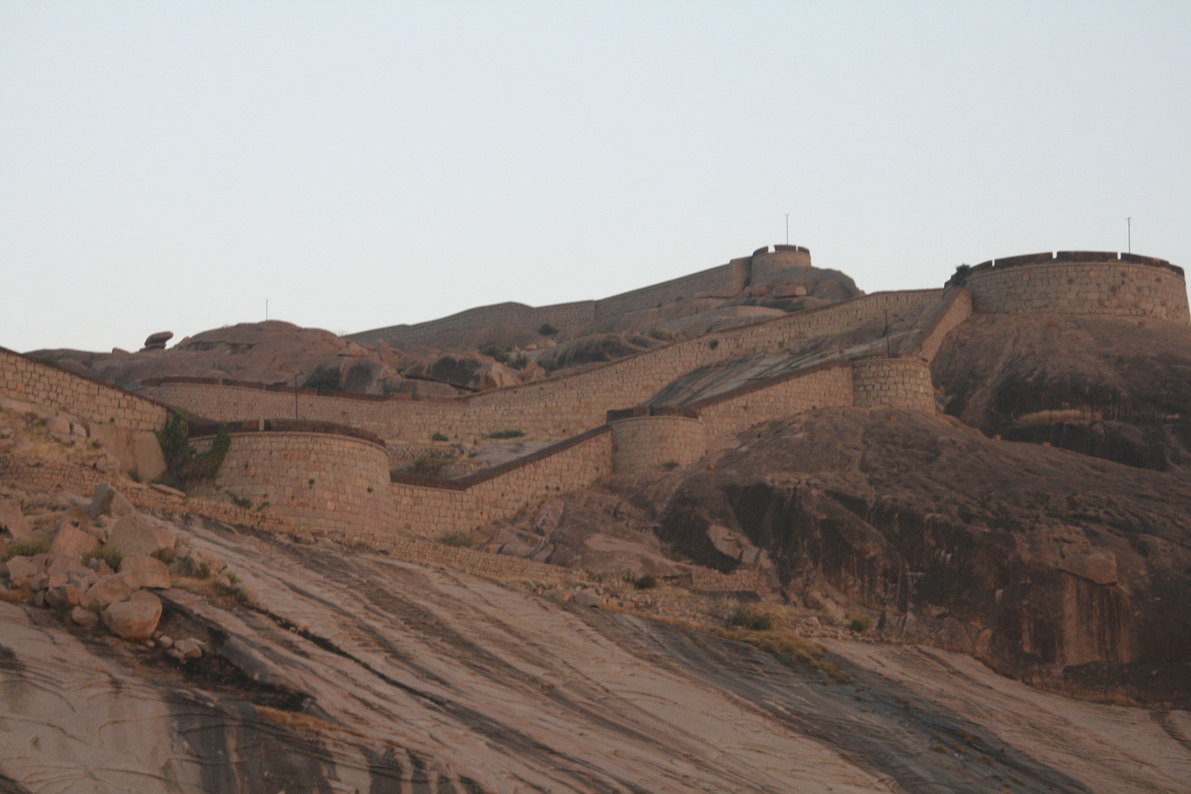 The fort above Bellary